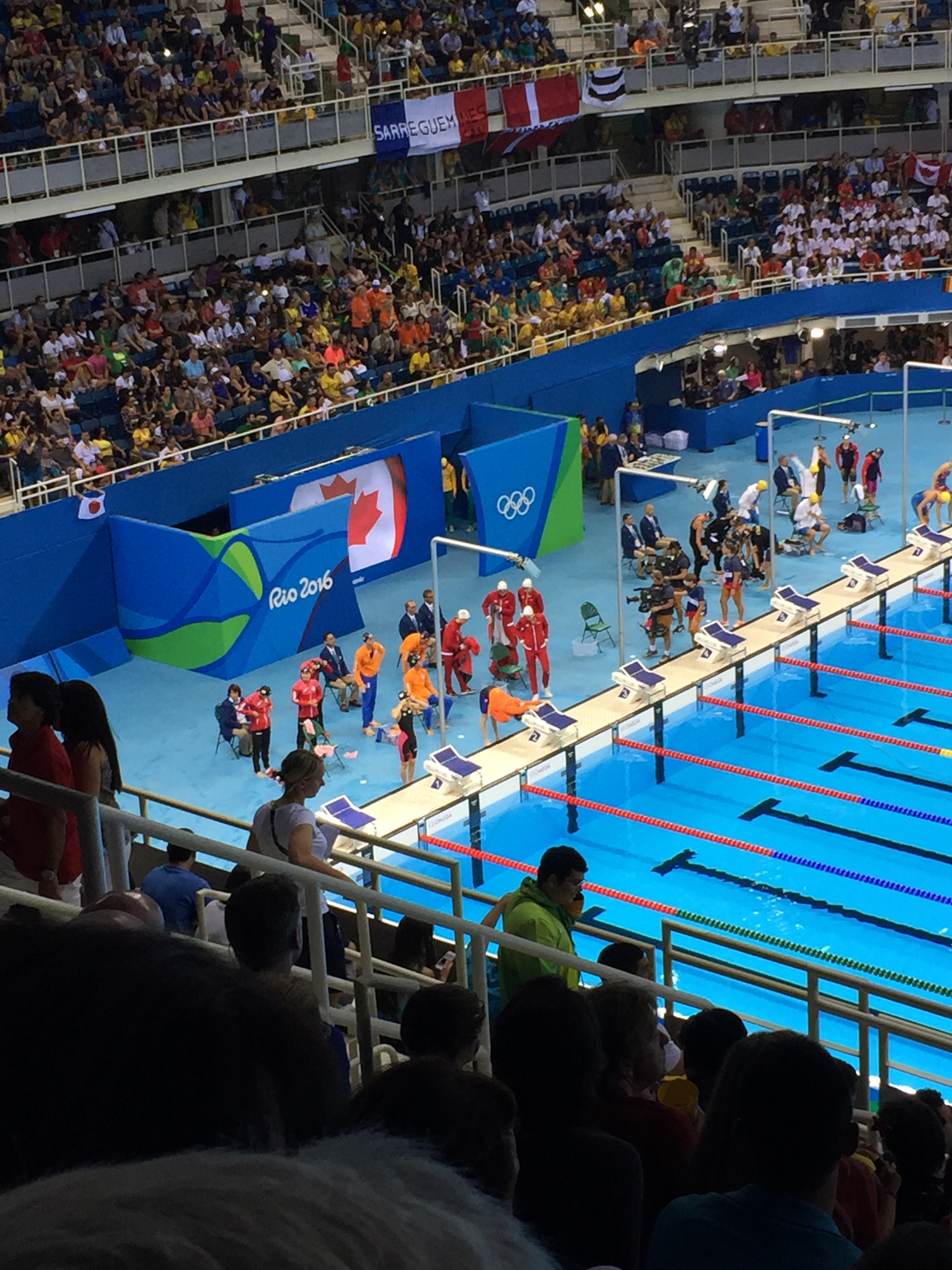 Rio 2016 Olympics - Swimming 6 August evening session